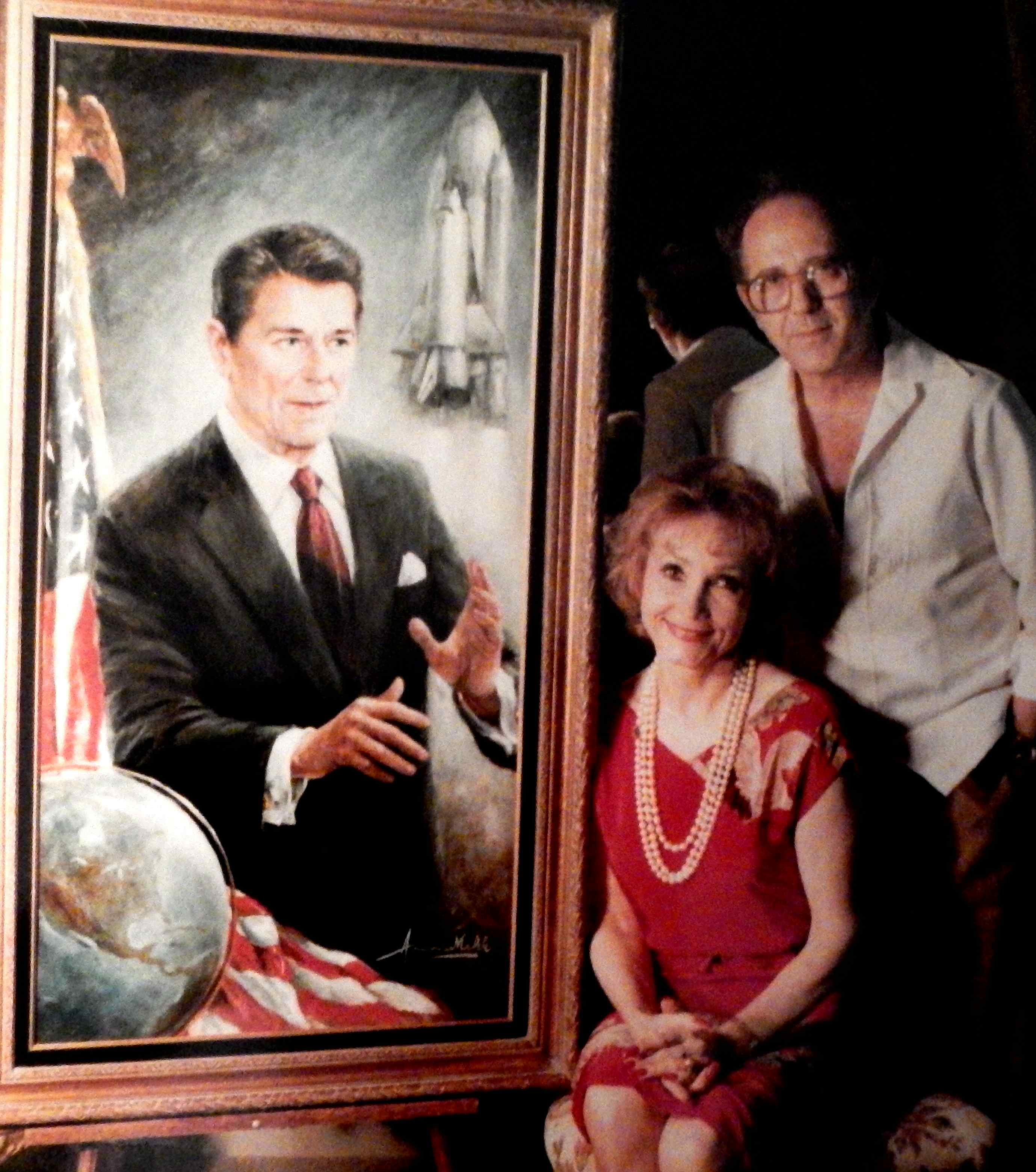 Eva and Americo Makk with Portrait of President Ronald Reagan